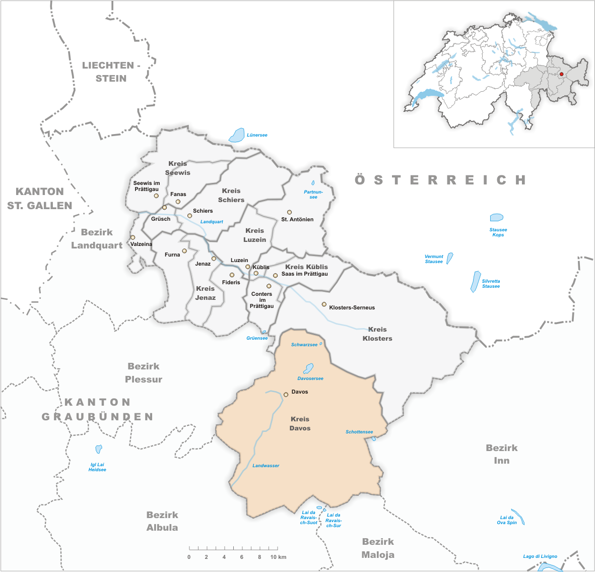 Municipality Davos